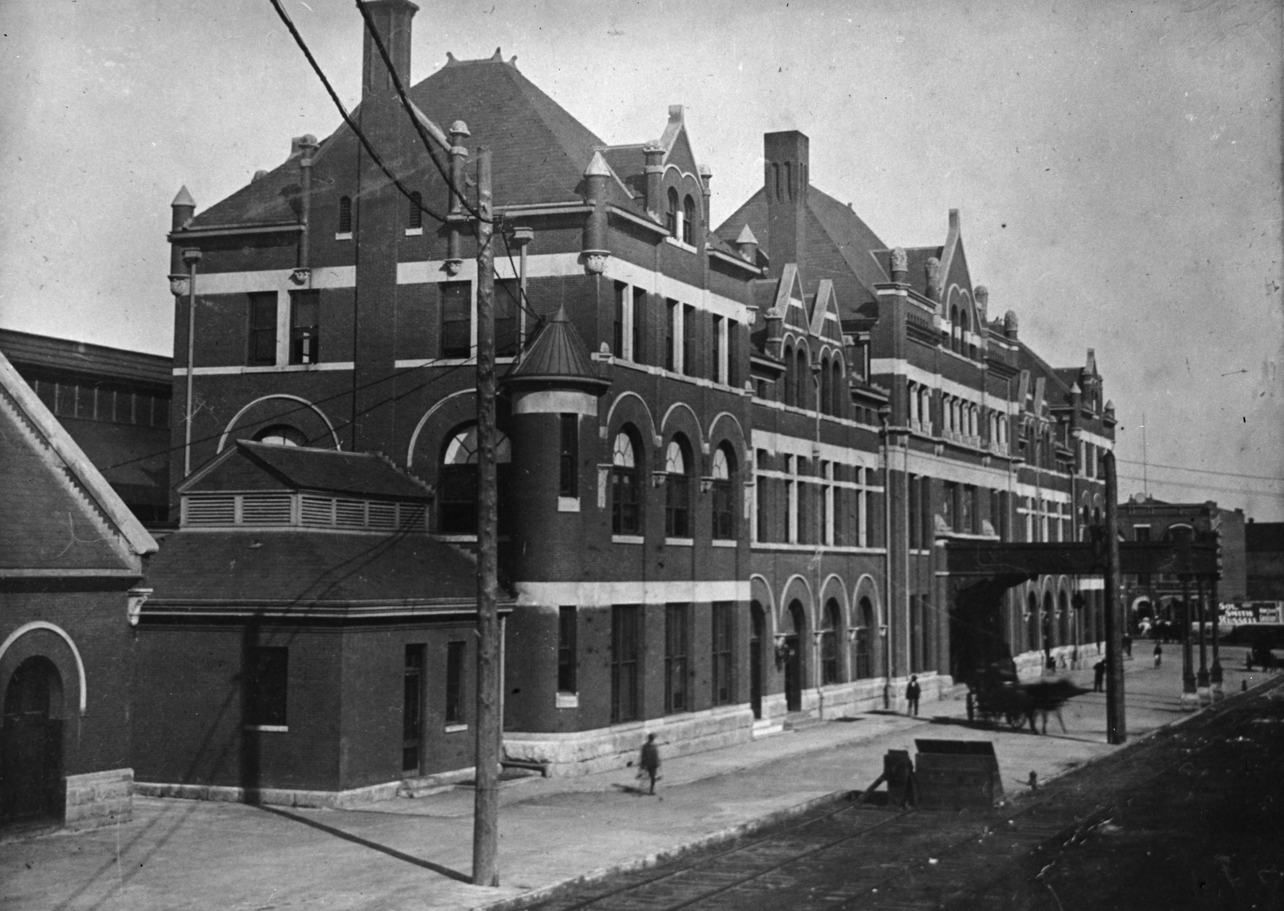 Union Station (built in 1898) — on Water Street, Montgomery, Montgomery County, AL. SOUTHEAST ELEVATION, VIEW FROM SOUTH. 1900 image: HABS—Historic American Buildings Survey of Alabama, photocopy of historical photograph.